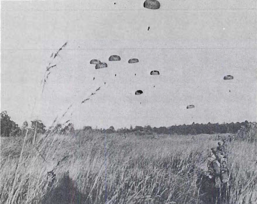 French paratroopers land near Kolwezi, Zaire, in the Shaba II conflict.